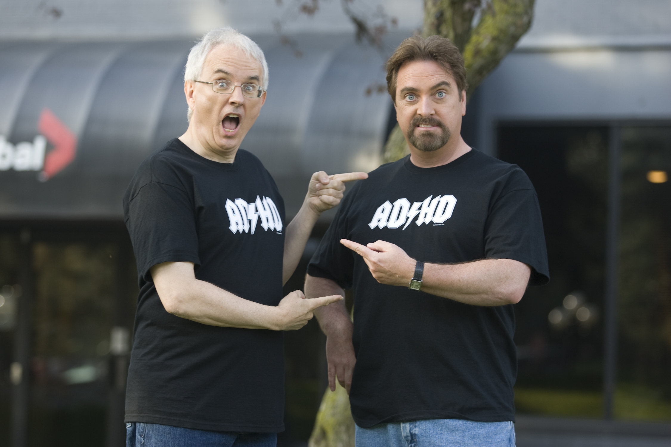 Rick Green and Patrick McKenna